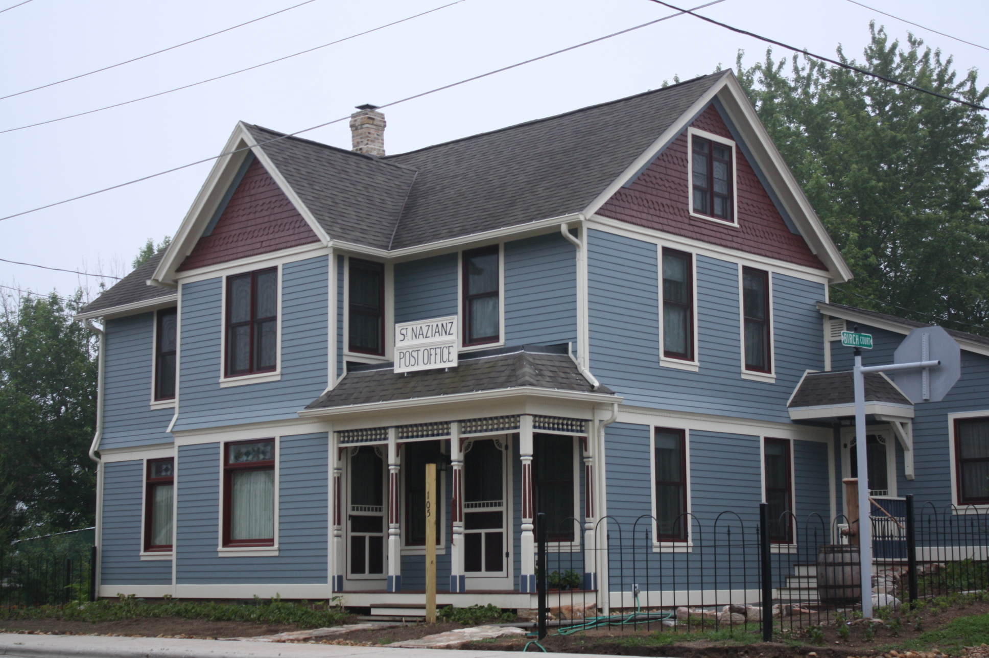 The post office in St. Nazianz, Wisconsin.